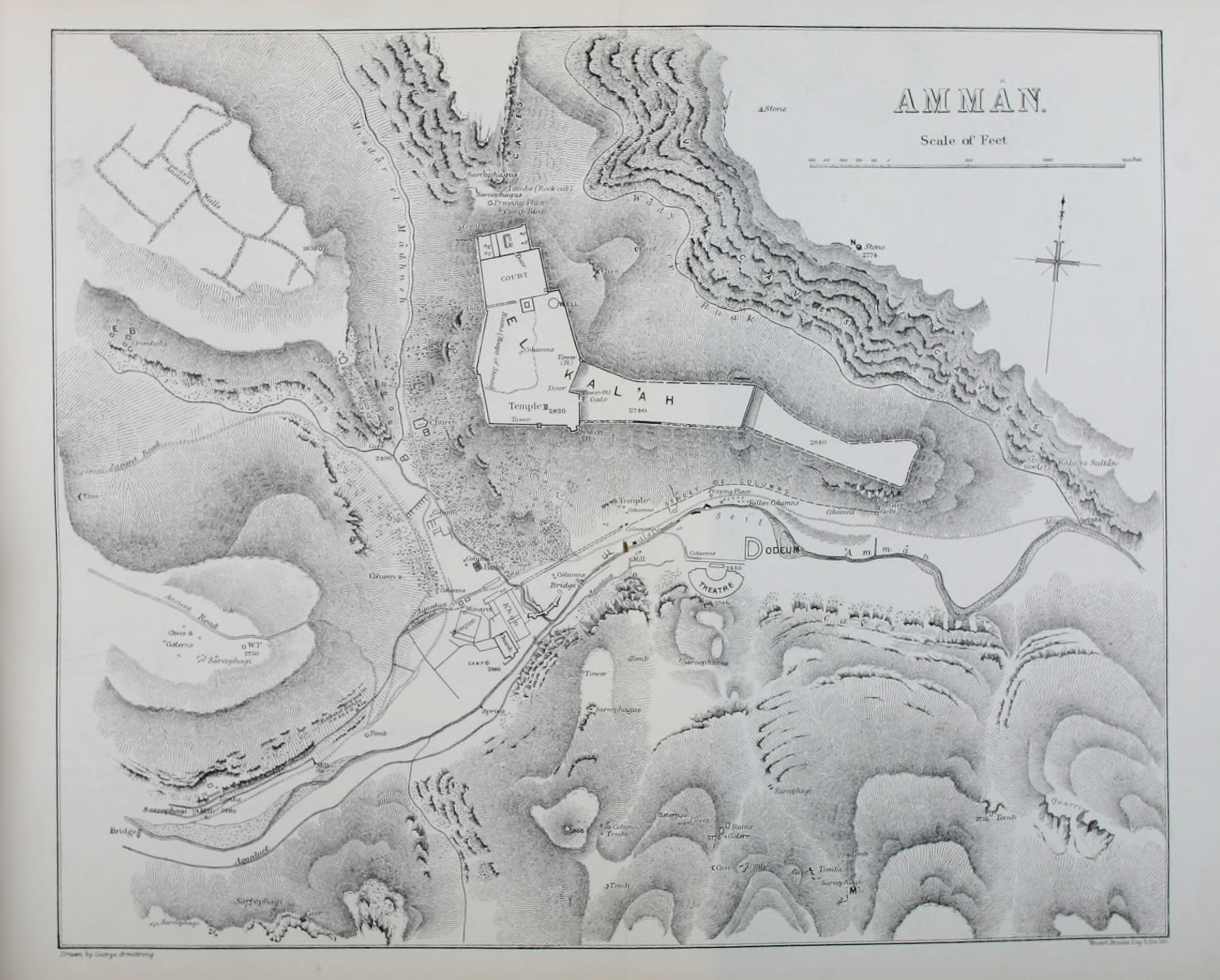 Map of Amman from the Survey of Palestine 1889 (as surveyed in 1881)